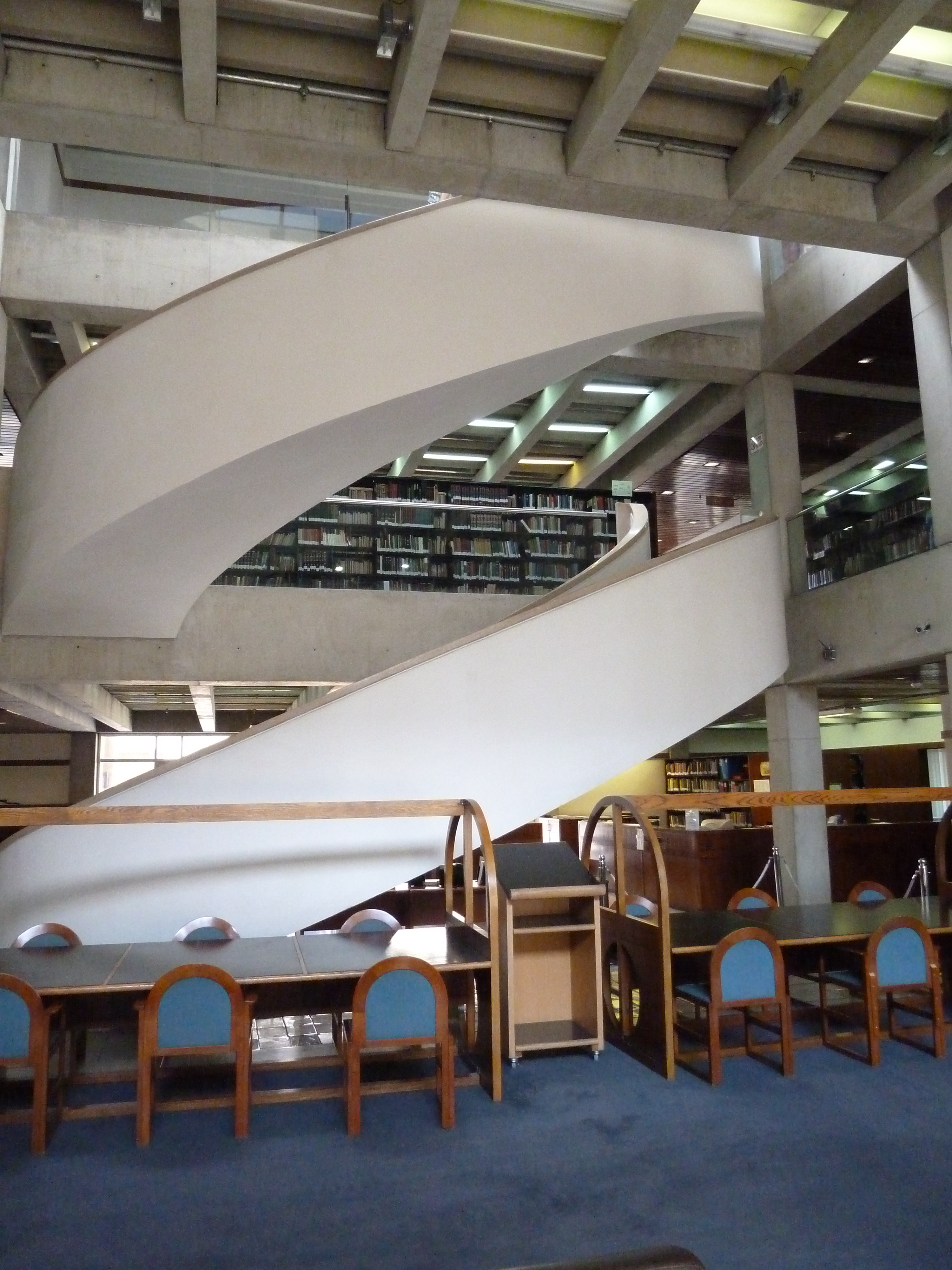 Hebrew Union College Campus, Jerusalem